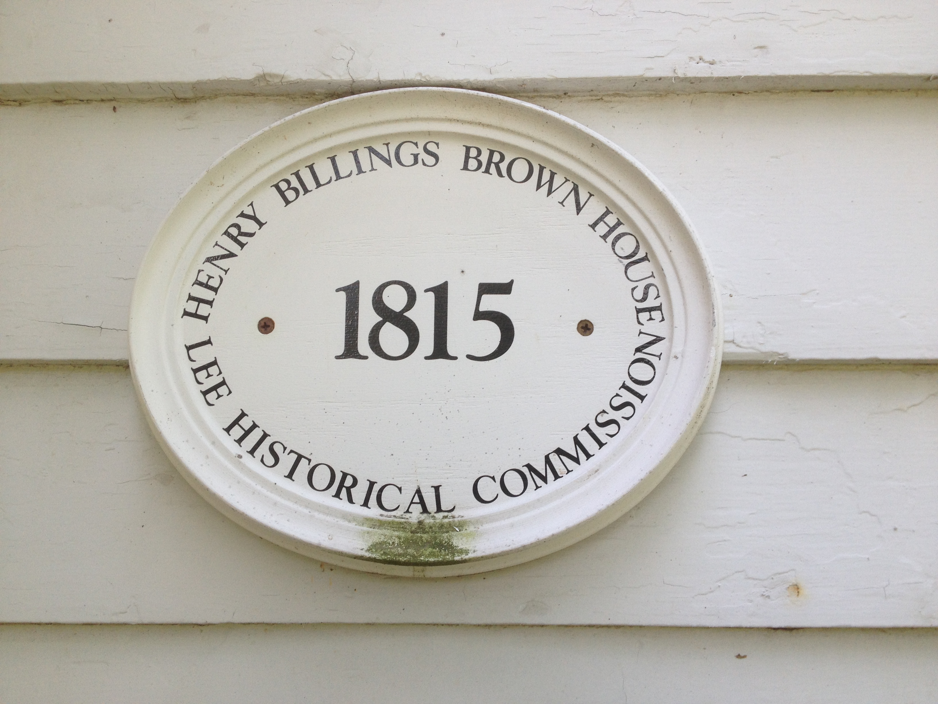 BillingsBrownHouse1815 marker South Lee, MA